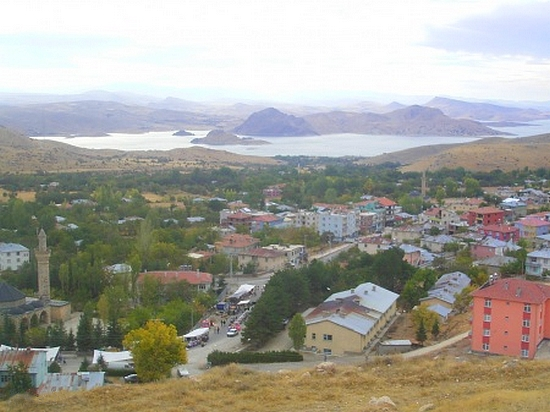 Pertek'ten görünüm